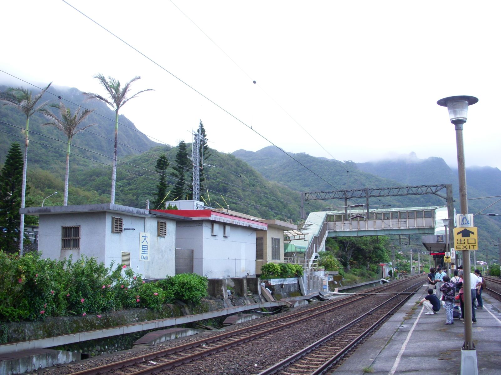 Taiwan Railway Administration Dali Station platform.